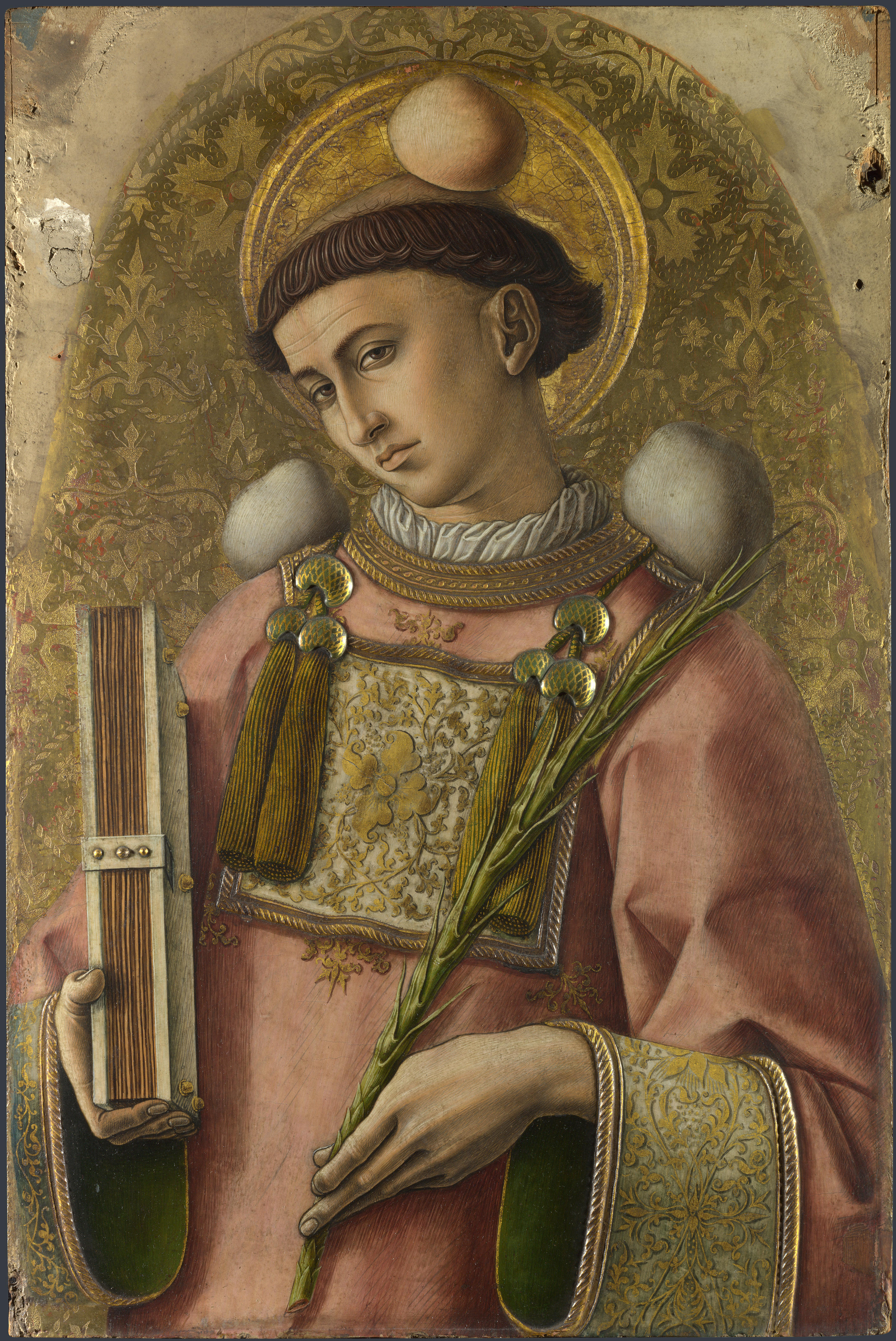 The objects around St. Stephen's head and body are depictions of the rocks, which were used to kill him.